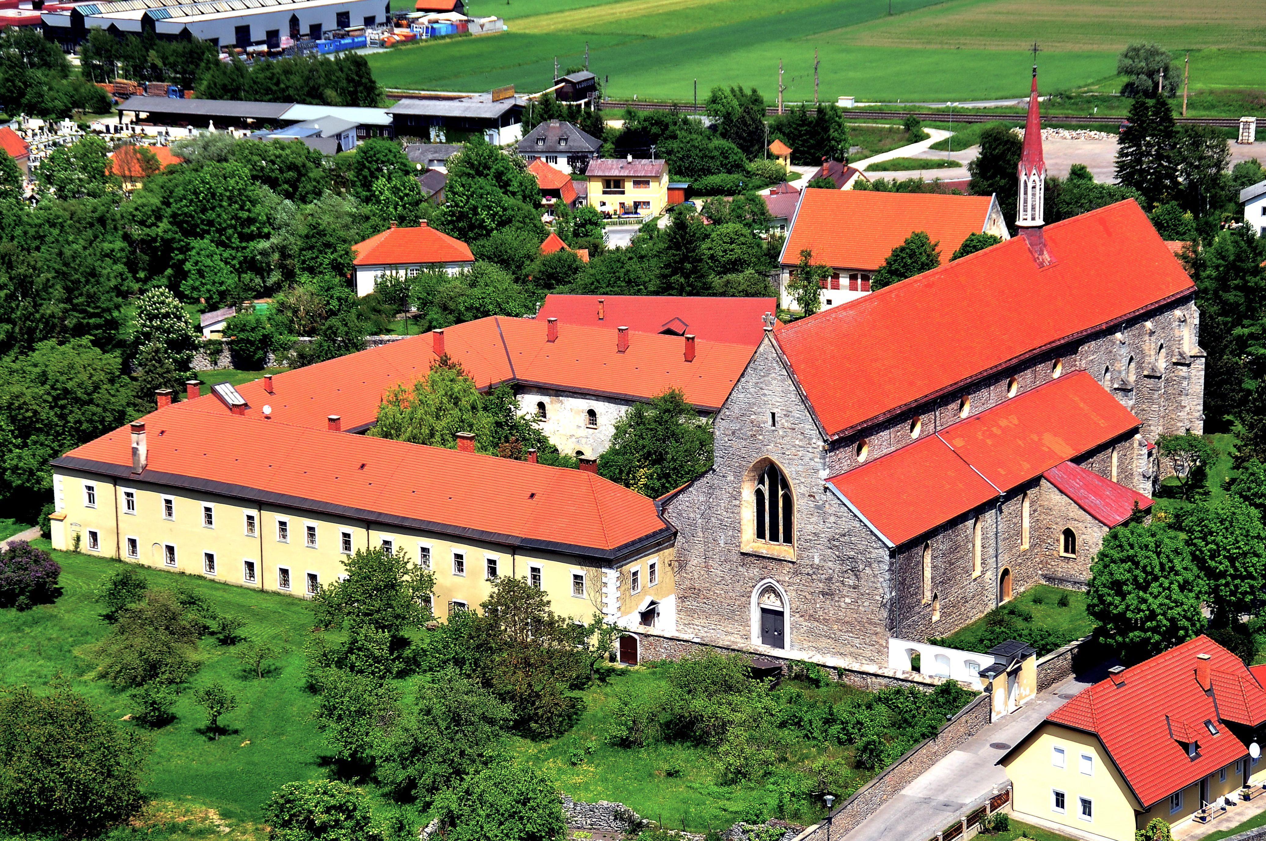 View from Petersberg at the church Saint Nicholas and the monastery of the Dominicans on Stadtgrabengasse #5, municipality Friesach, district Sankt Veit an der Glan, Carinthia, Austria, EU